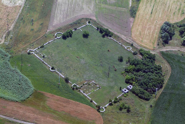 Tokod, Hungary, aerial photography This is a photo of a monument in Hungary. Identifier: 6487